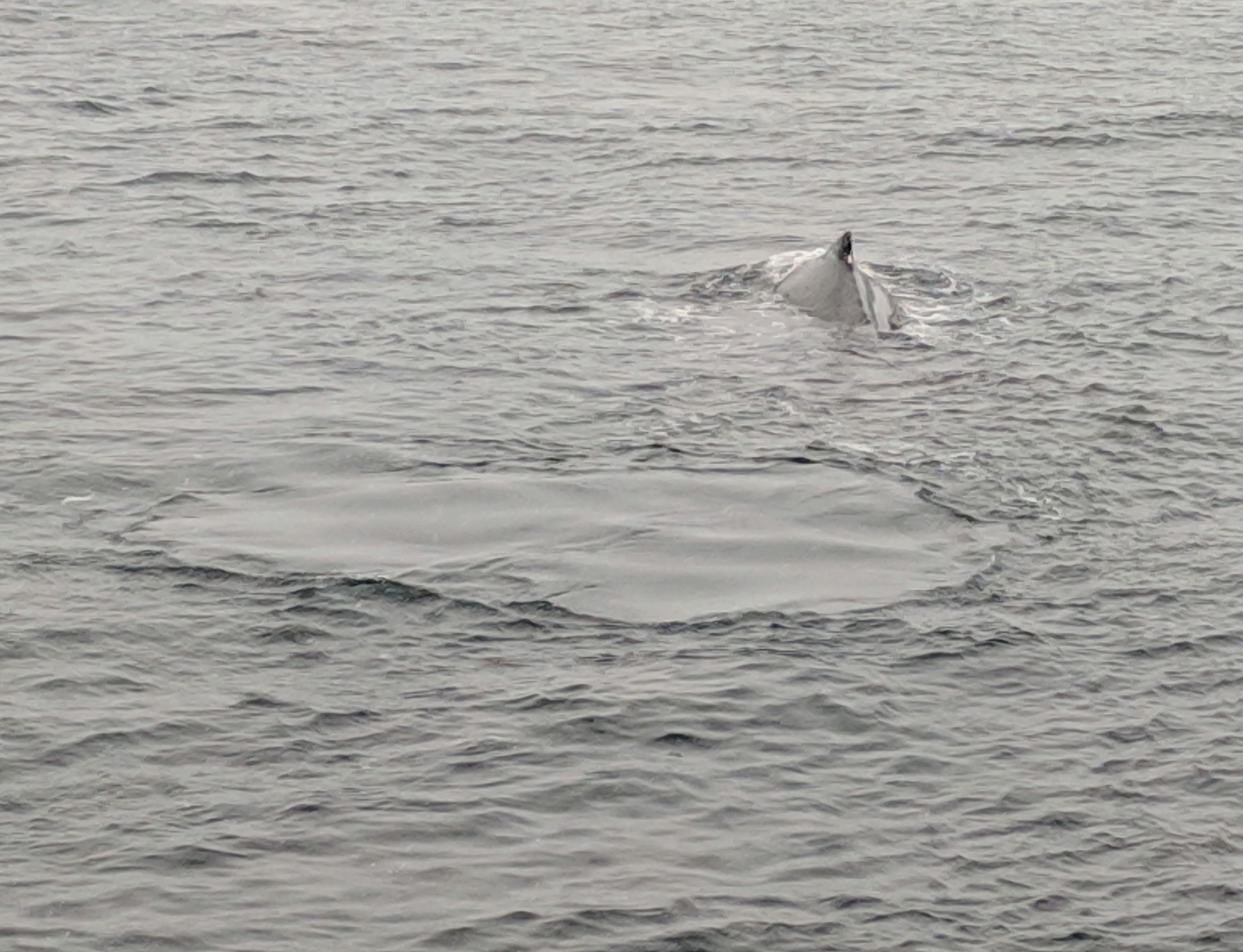 A humpback whale swims along the surface, leaving a clear flukeprint behind it.